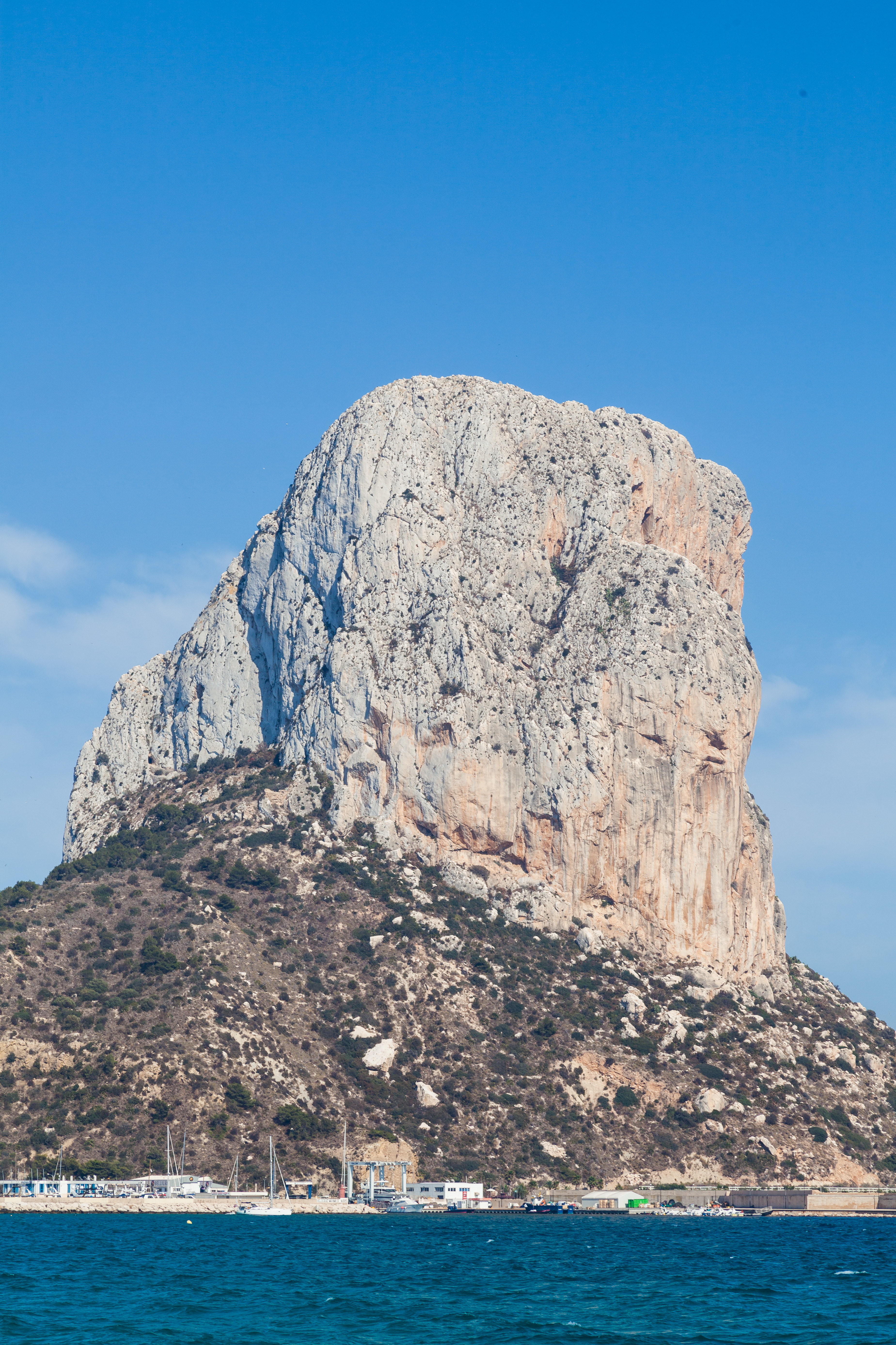 Rock of Ifach, Calpe, Spain